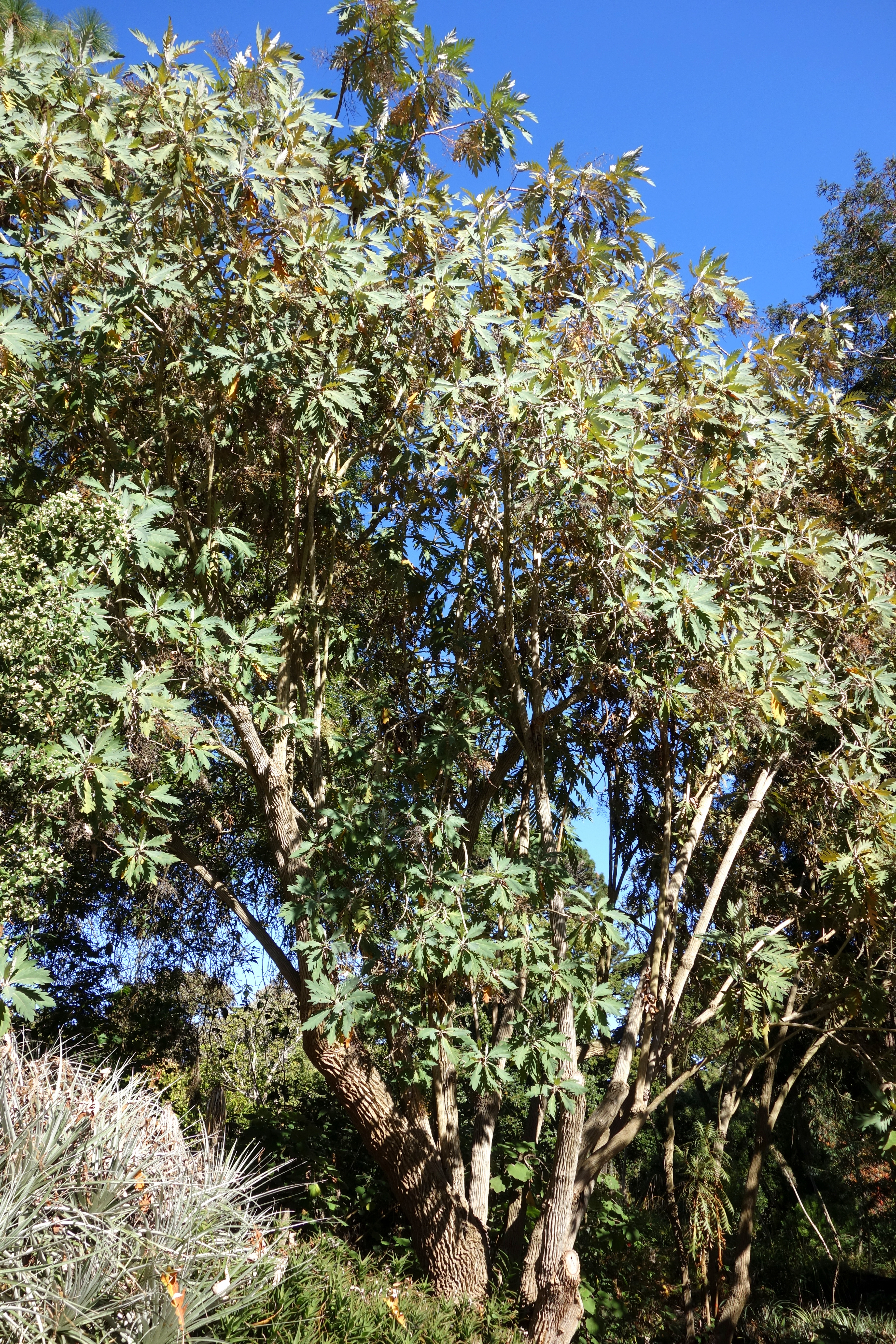 Botanical specimen in the San Francisco Botanical Garden, San Francisco, California, USA.